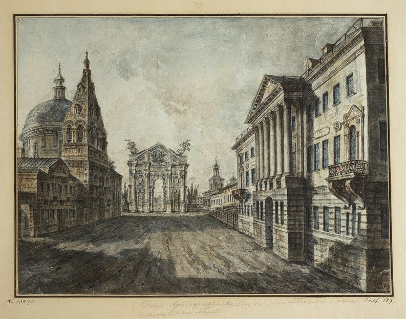 Tverskaya Street and Triumphal Arch in the Strastnaya Square